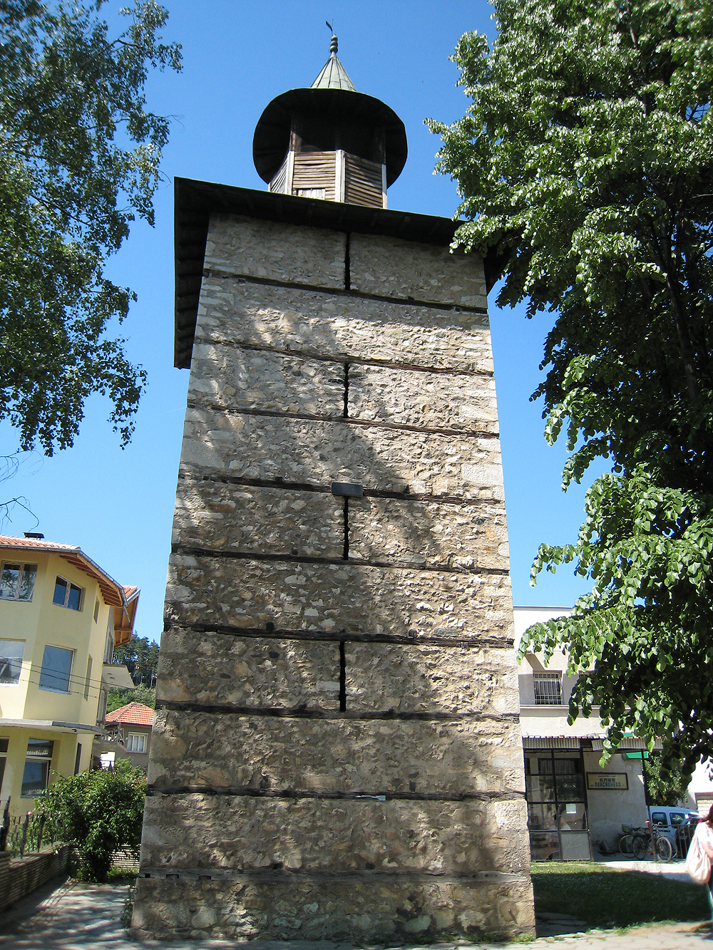 1762 Berkovitsa Clock Tower